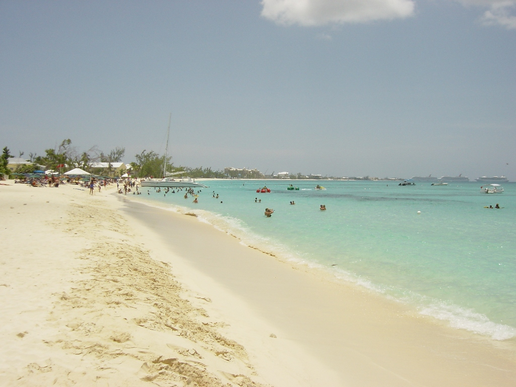 Seven Mile Beach - Grand Cayman island